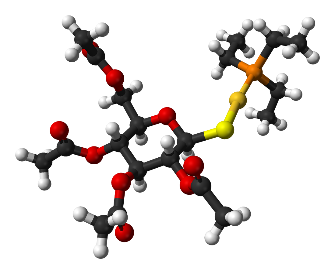 Ball-and-stick model of the auranofin molecule, as found in the crystal structure. X-ray crystallographic data from D.T. Hill, B.M Sutton. Cryst. Struct. Comm. 9 (1980), 679-686. Model constructed in CrystalMaker 8.1. Image generated in Accelrys DS Visualizer.